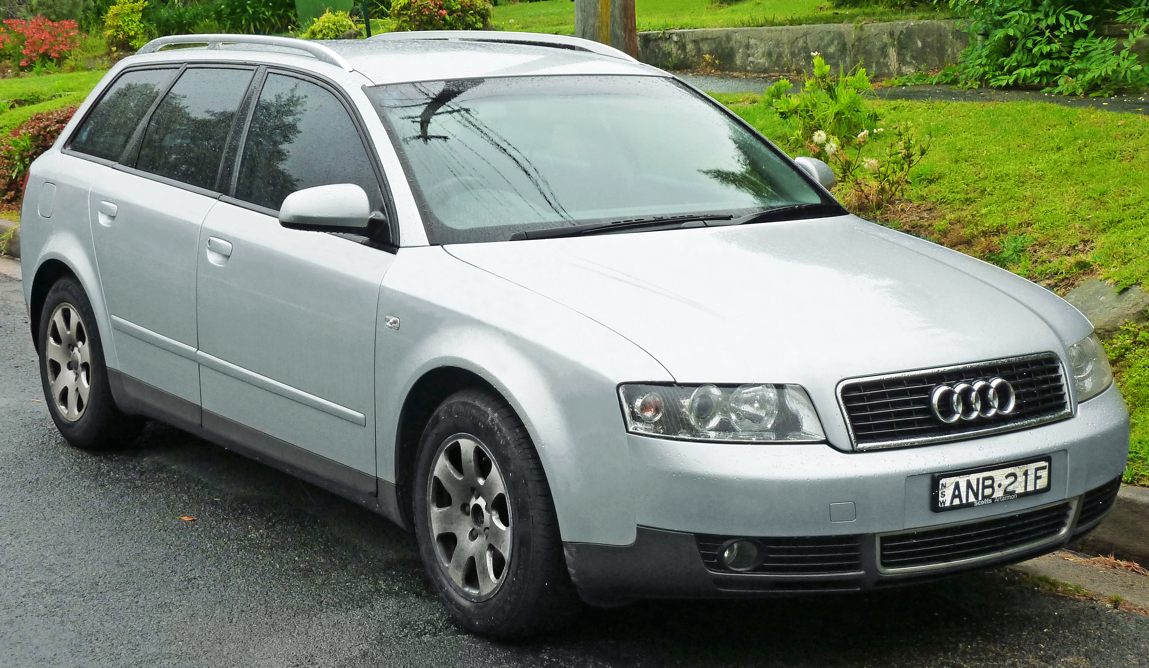 2002–2005 Audi A4 (8E) 2.0 Avant. Photographed in Roseville, New South Wales, Australia.